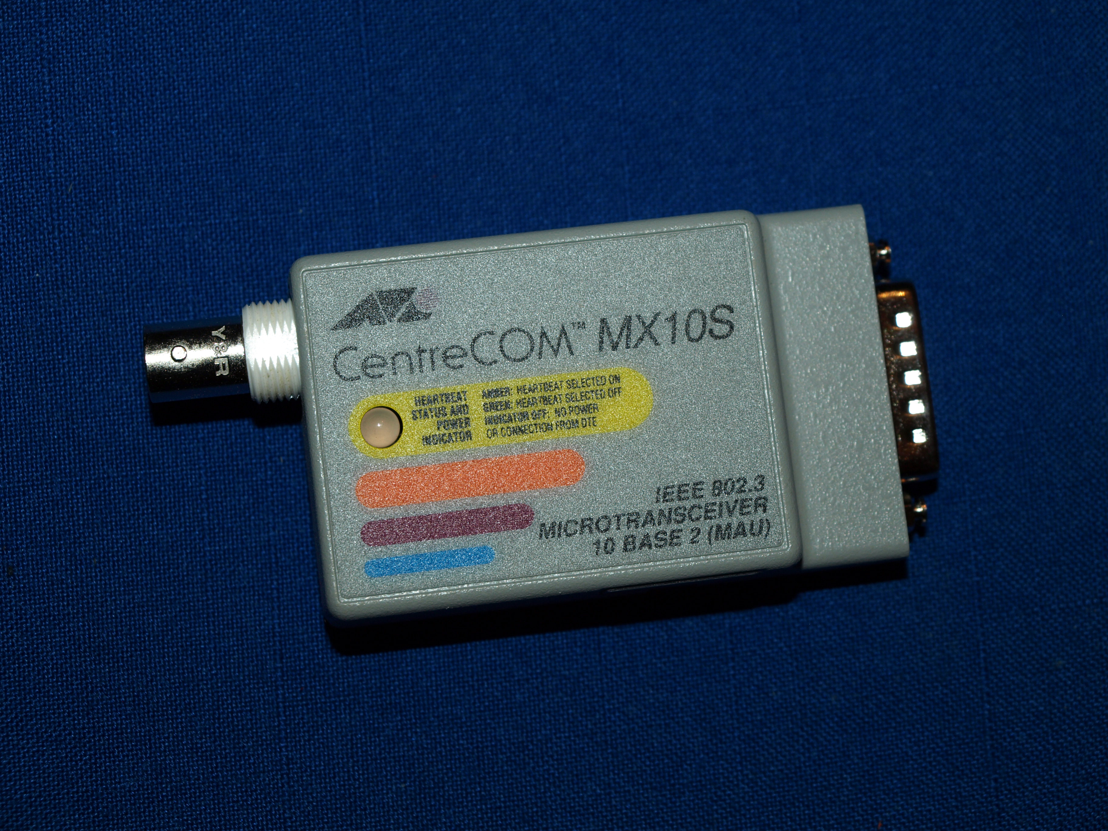 Transceiver